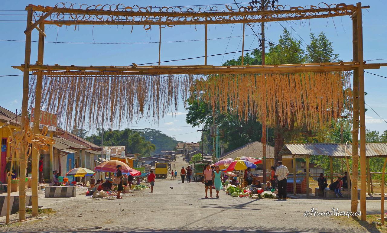 Main Street, Ermera, Timor-Leste Main street of the city of Ermera